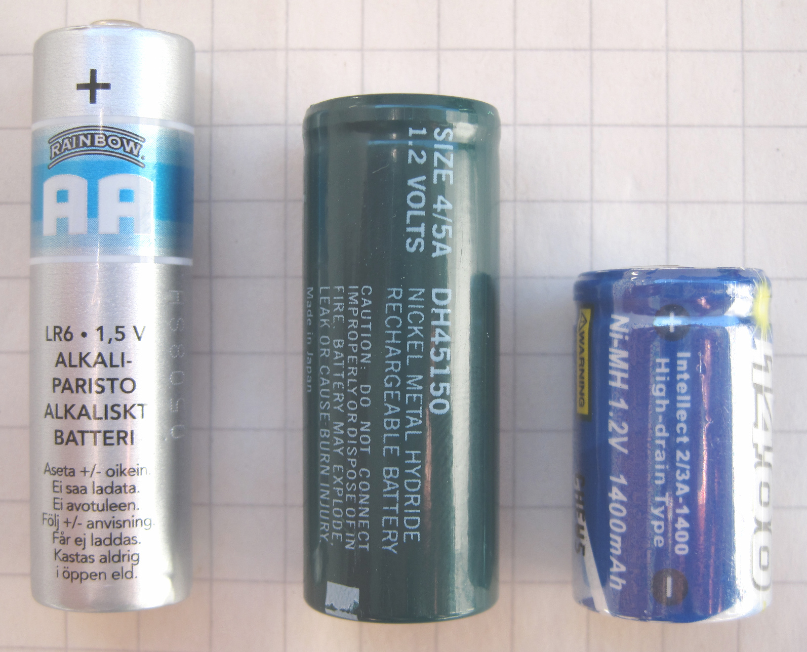 An image comparing a primary AA battery with a couple of A derivative batteries. They are 4/5th A and 2/3rd A sizes. Both are NiMH rechargeable.